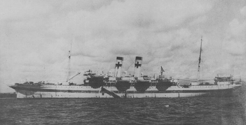 Imperial Japanese Army hospital ship America Maru